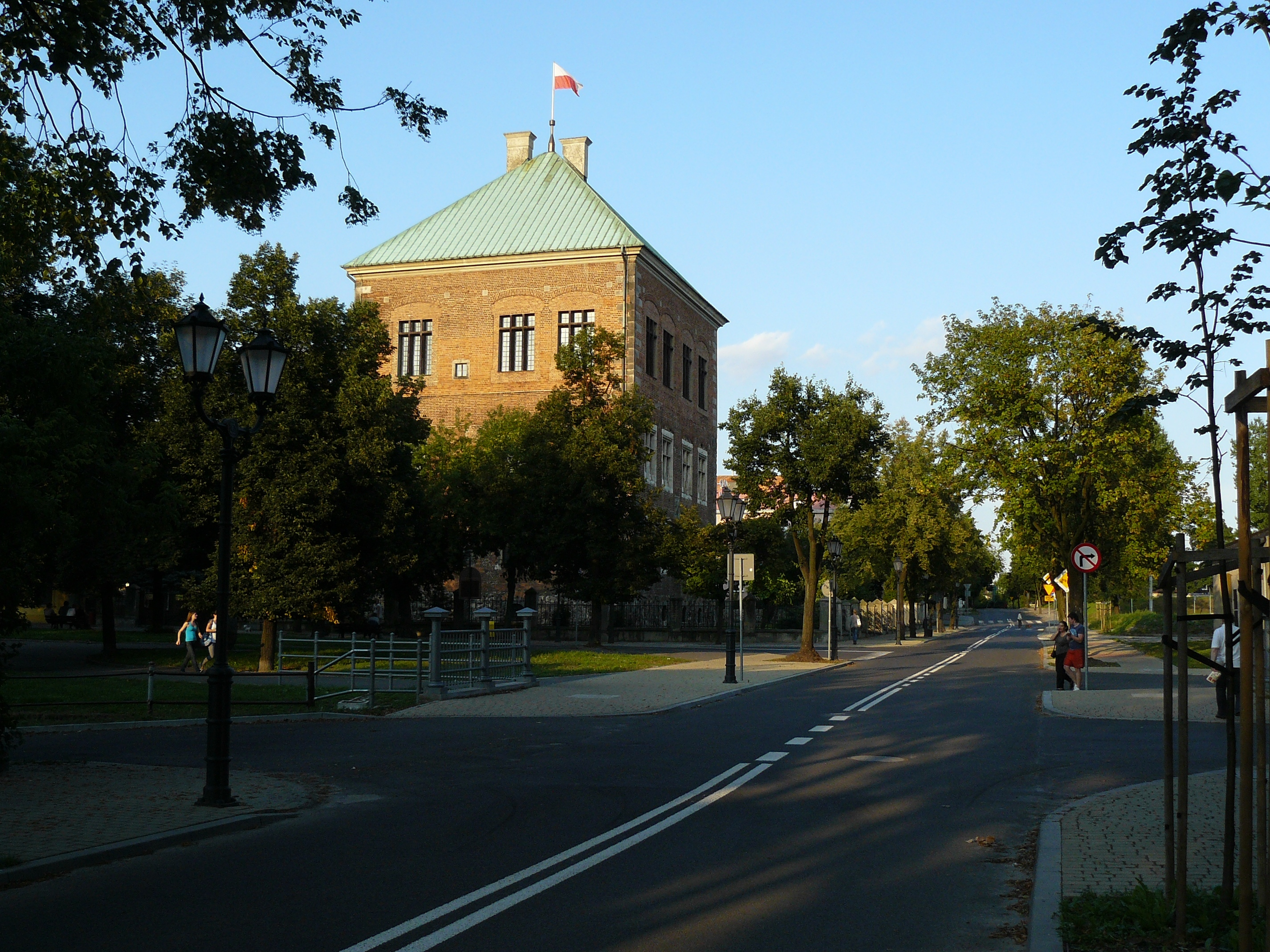 Royal Castle in Piotrkow Trybunalski.